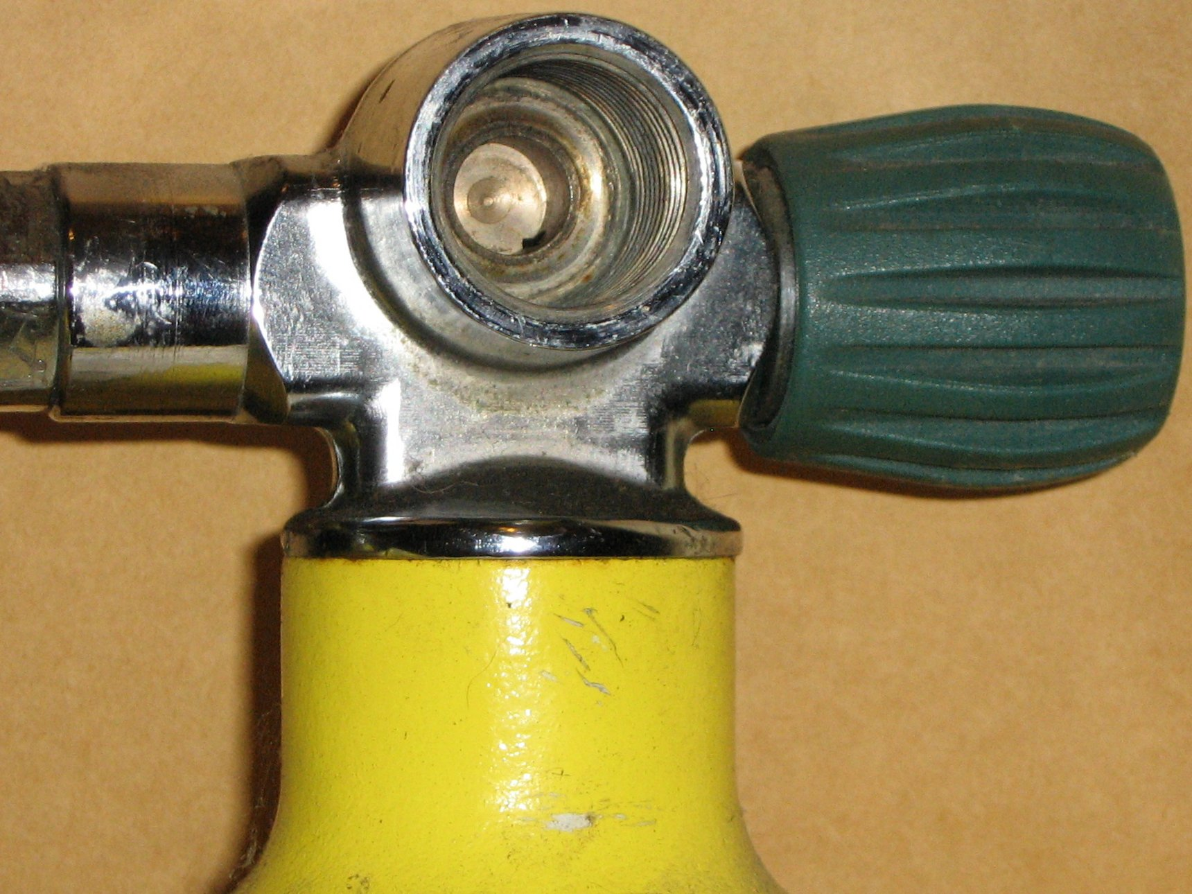 This pillar valve on a diving cylinder is rated at 300 bar (DIN, 7-thread)